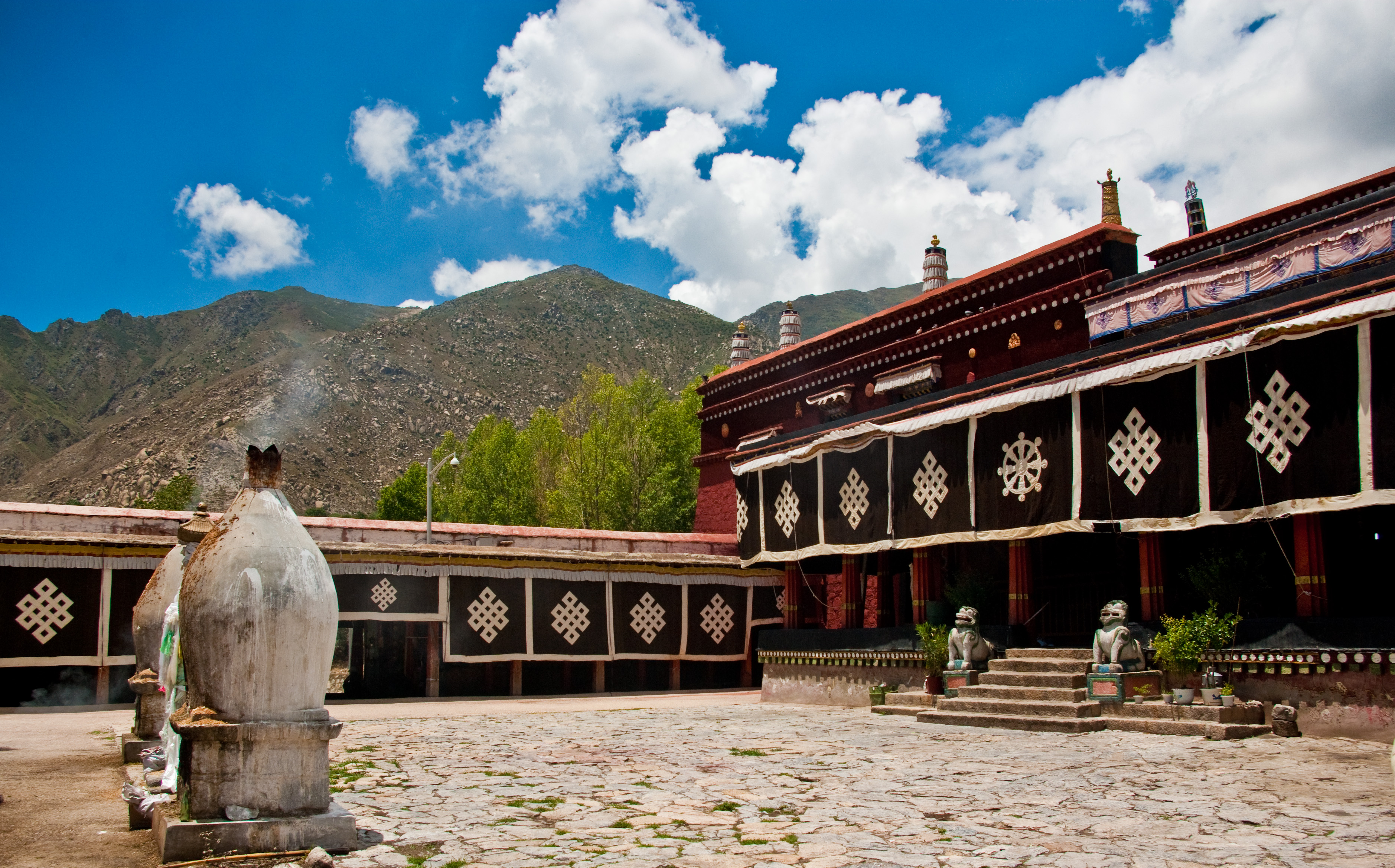 Nechung